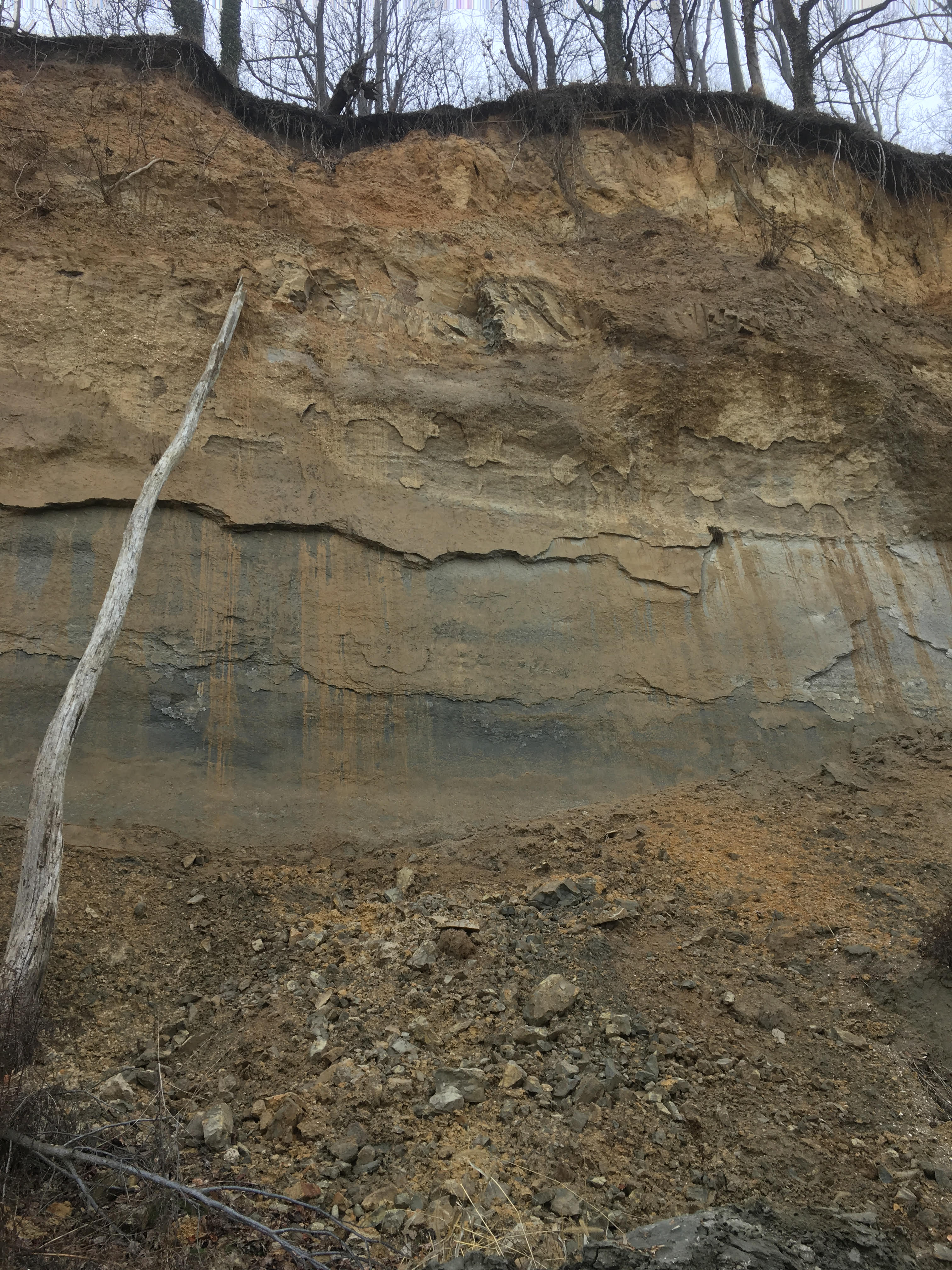 Chesapeake Group, Calvert formation, zones 4-14